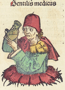 Woodcut from the Nuremberg Chronicle (Latin edition in Sao Paulo)